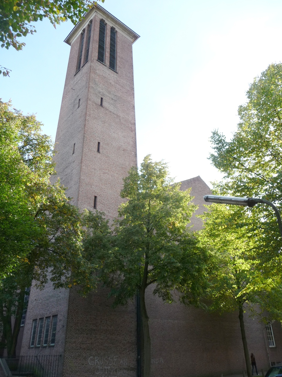 Wilhadi-Church in Bremen-Walle